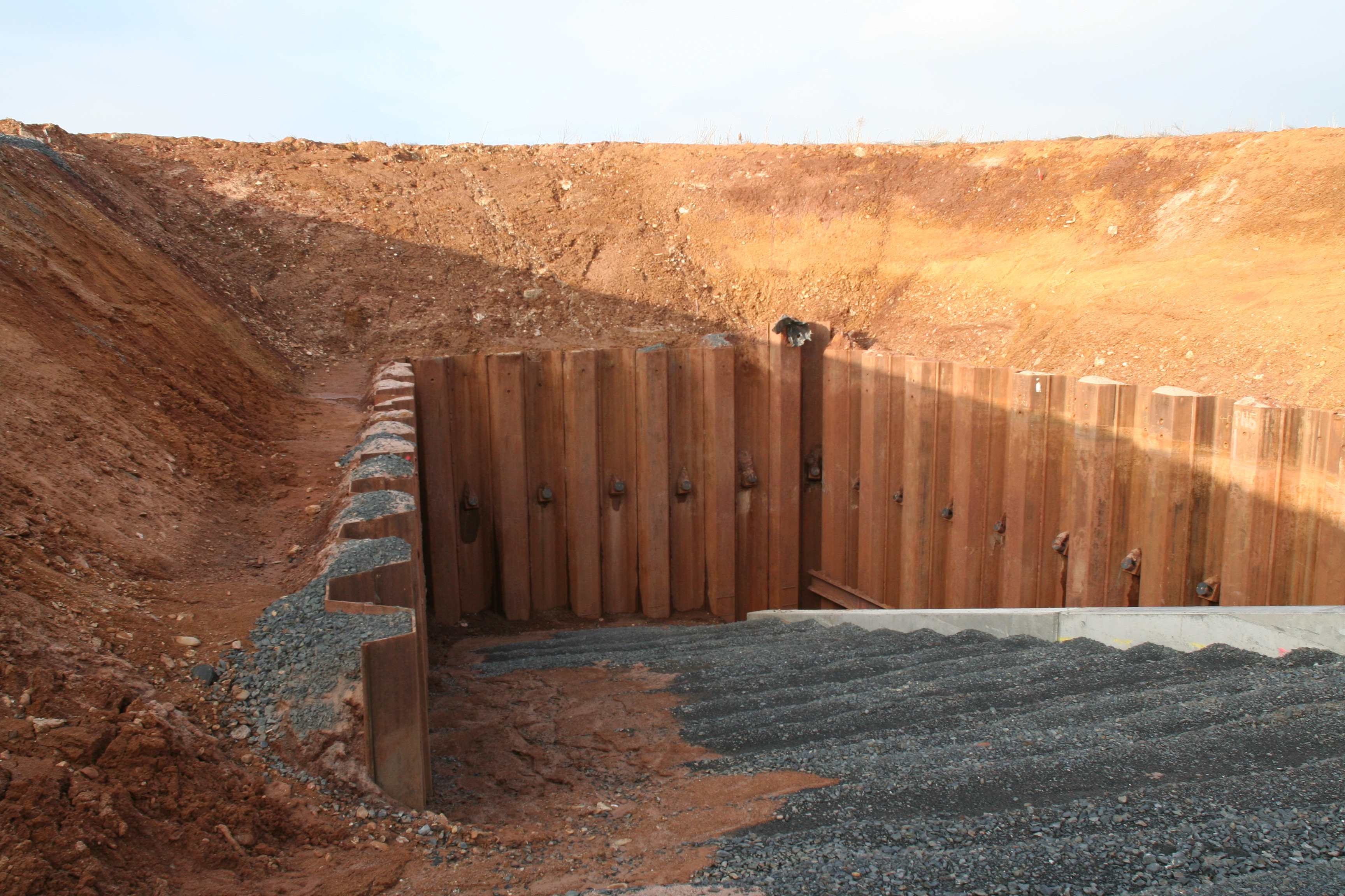 Rear-anchored sheet pile retaining wall near Dörfles-Esbach, Bavaria, Germany